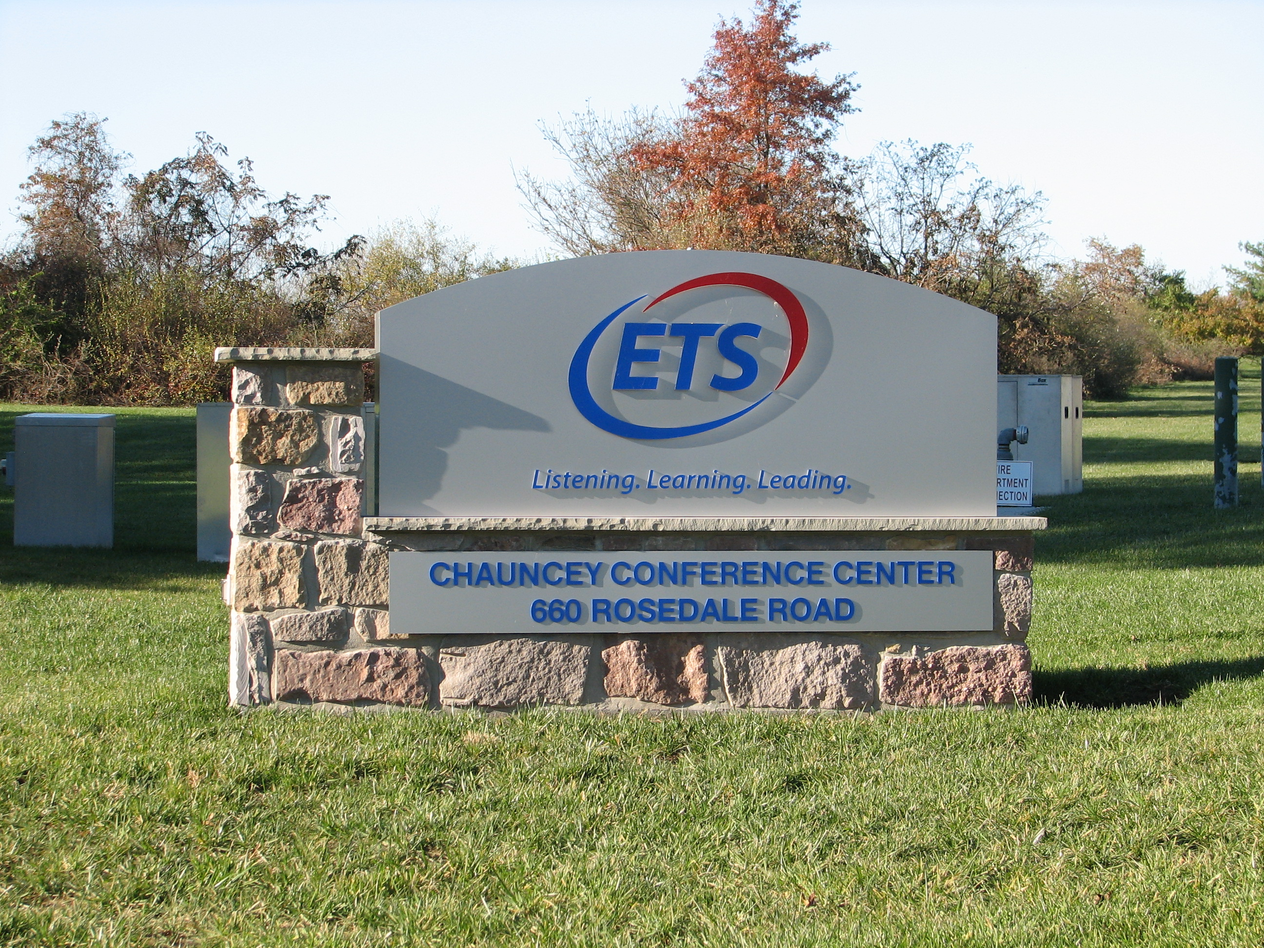 Educational Testing Service welcome sign as seen from Rosedale Road/